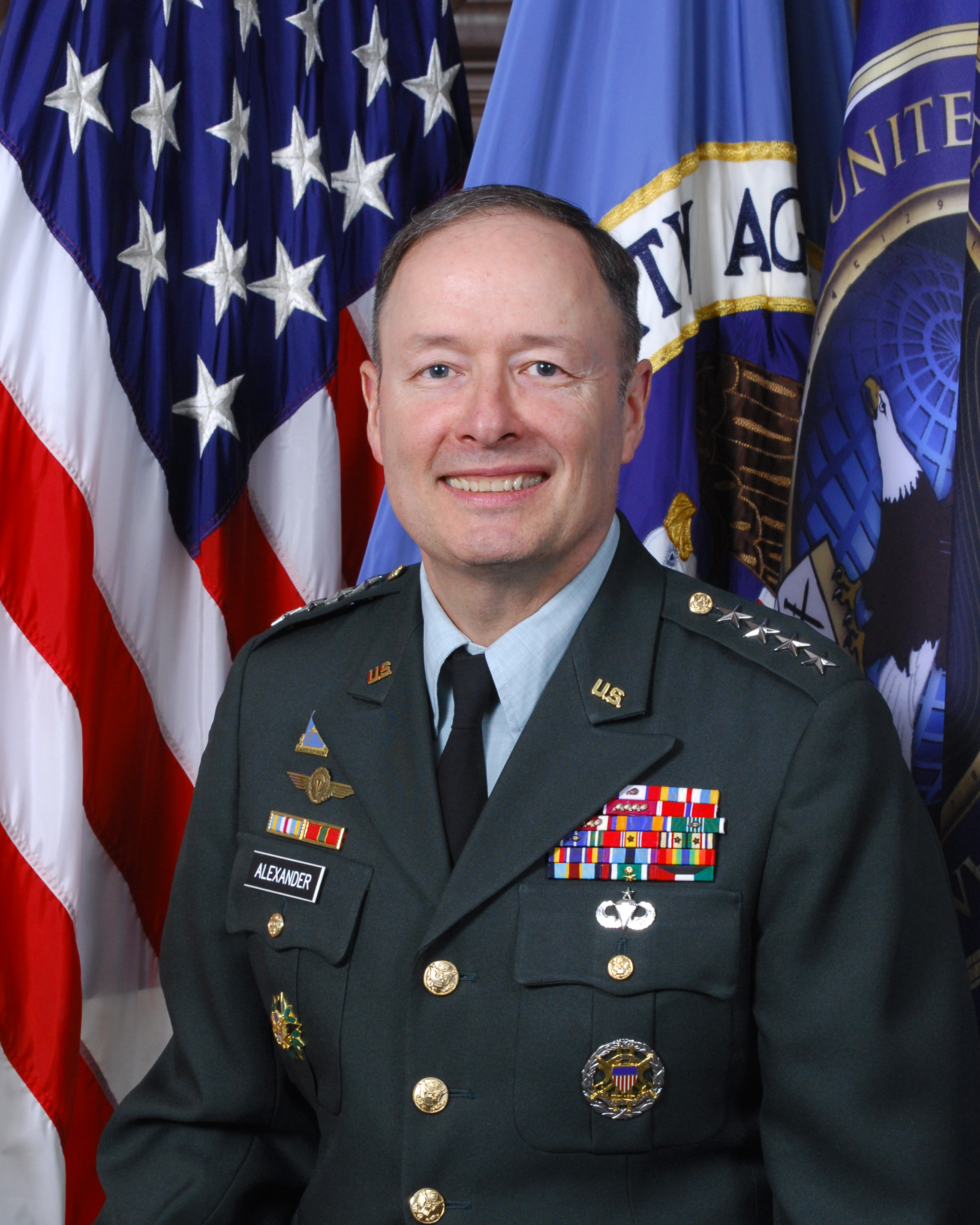 Official photographic portrait of the Director of the National Security Agency (NSA), General Keith B. Alexander, United States Army.